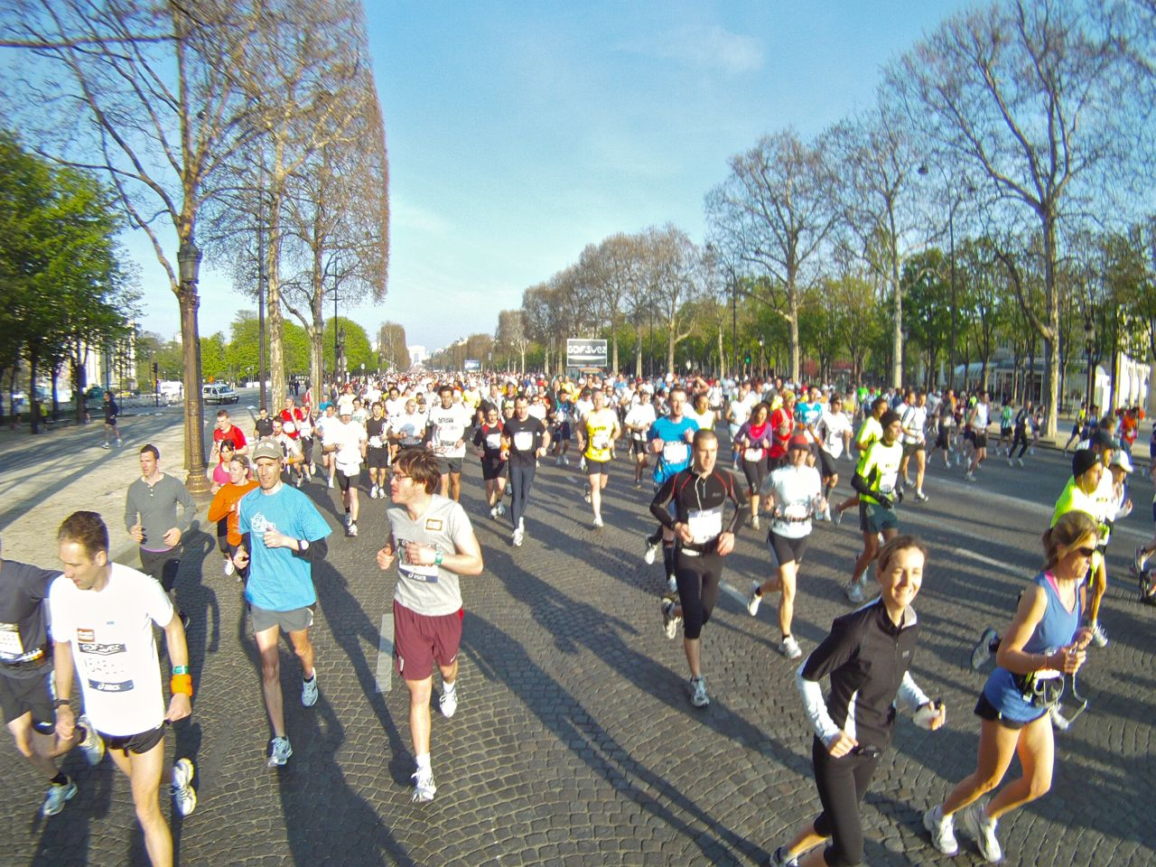 Paris Marathon 2010, Avenue des Champs-Élysées